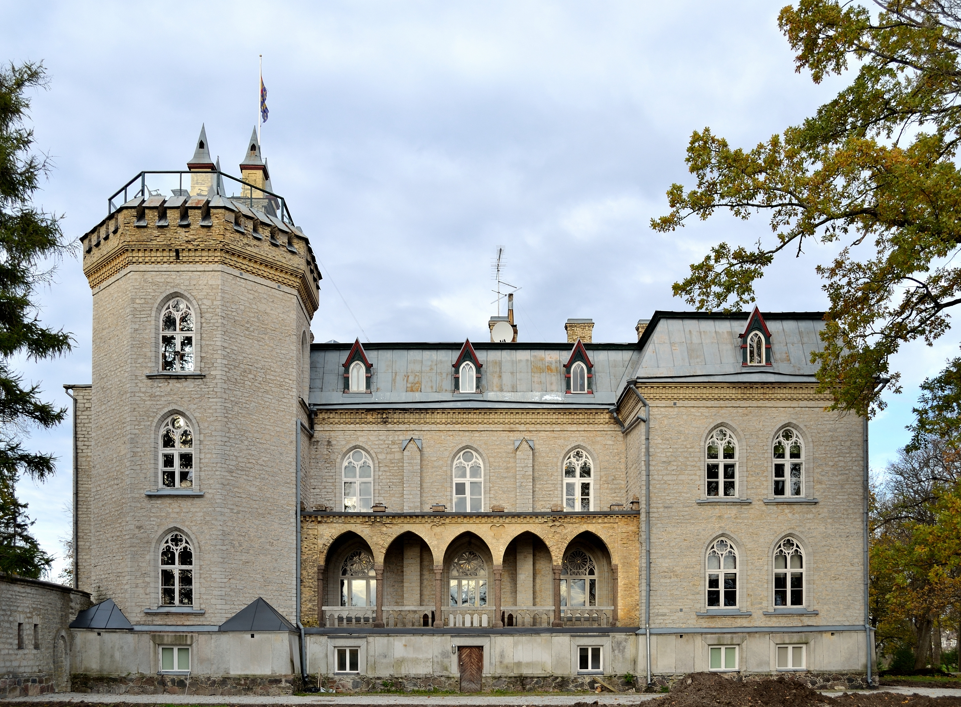 Laitse manor main building, 19. century